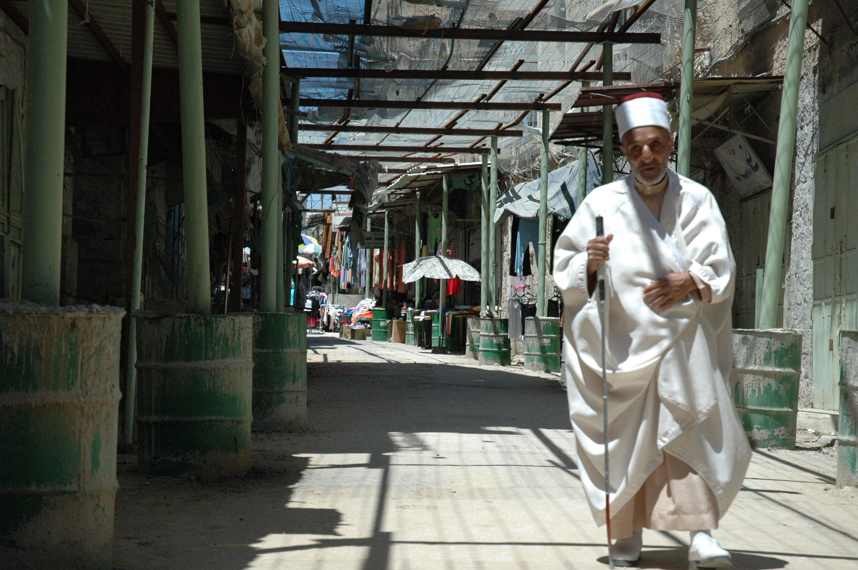 Hebron. The mostly deserted market in the old city.